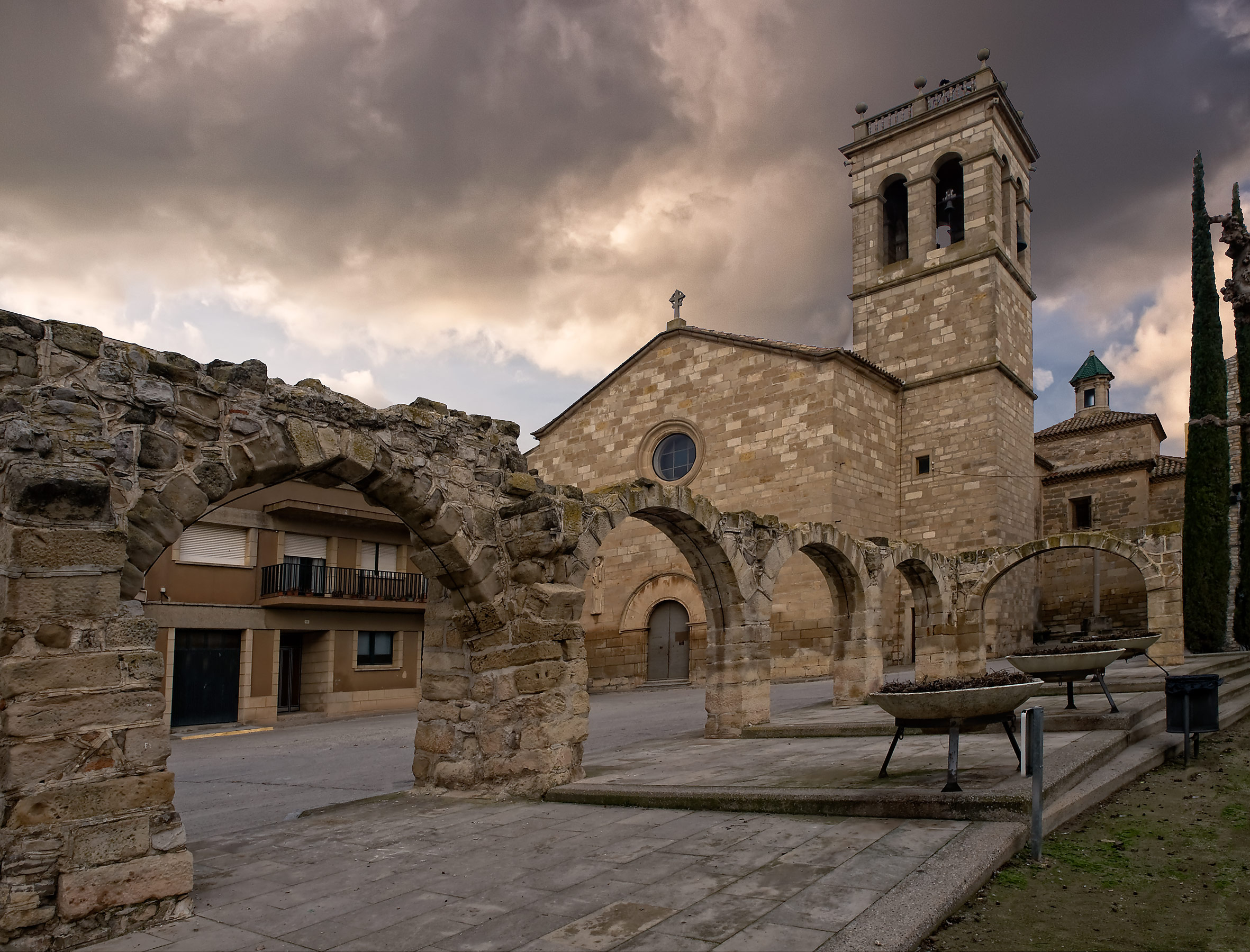 Church square (Anglesola, Catalonia, Spain)